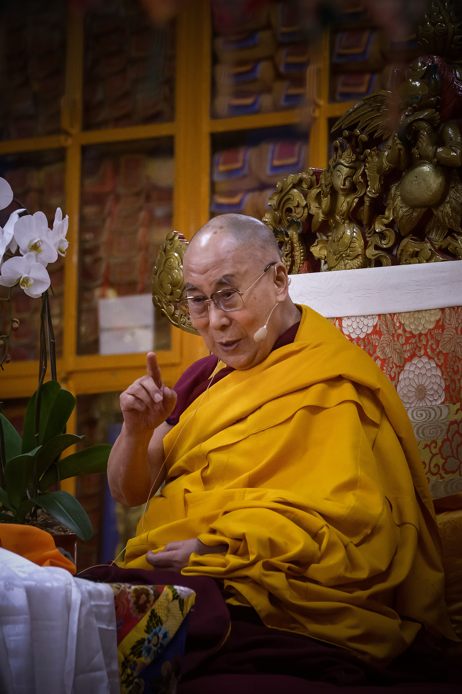 Dear your Holiness the Dalai Lama